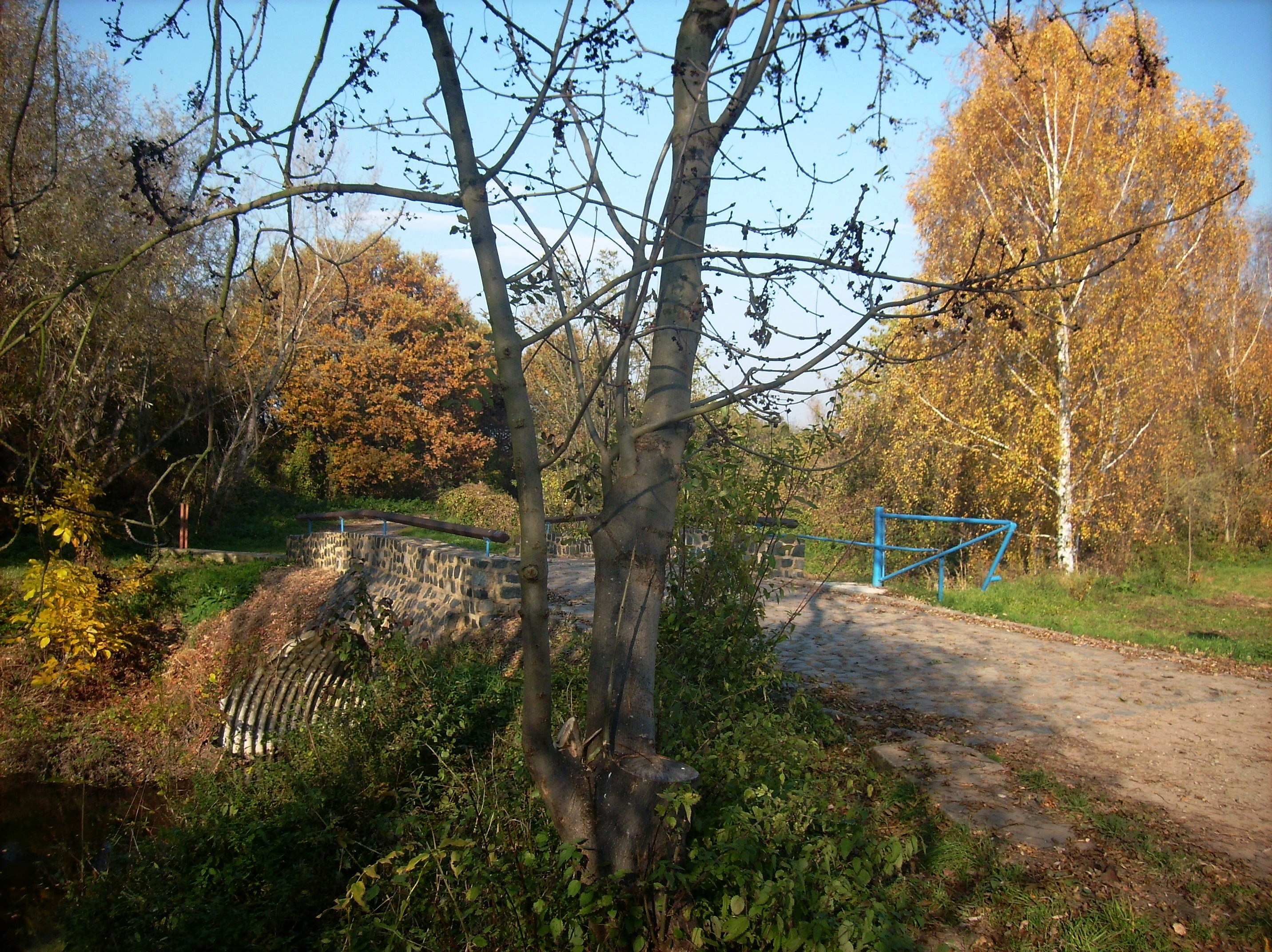 Bridge over the Luppe river near Wegwitz in the Wallendorf district of Schkopau (district of Saalekreis, Saxony-Anhalt)